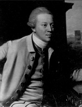 Ralph Izard (U.S. Senator)